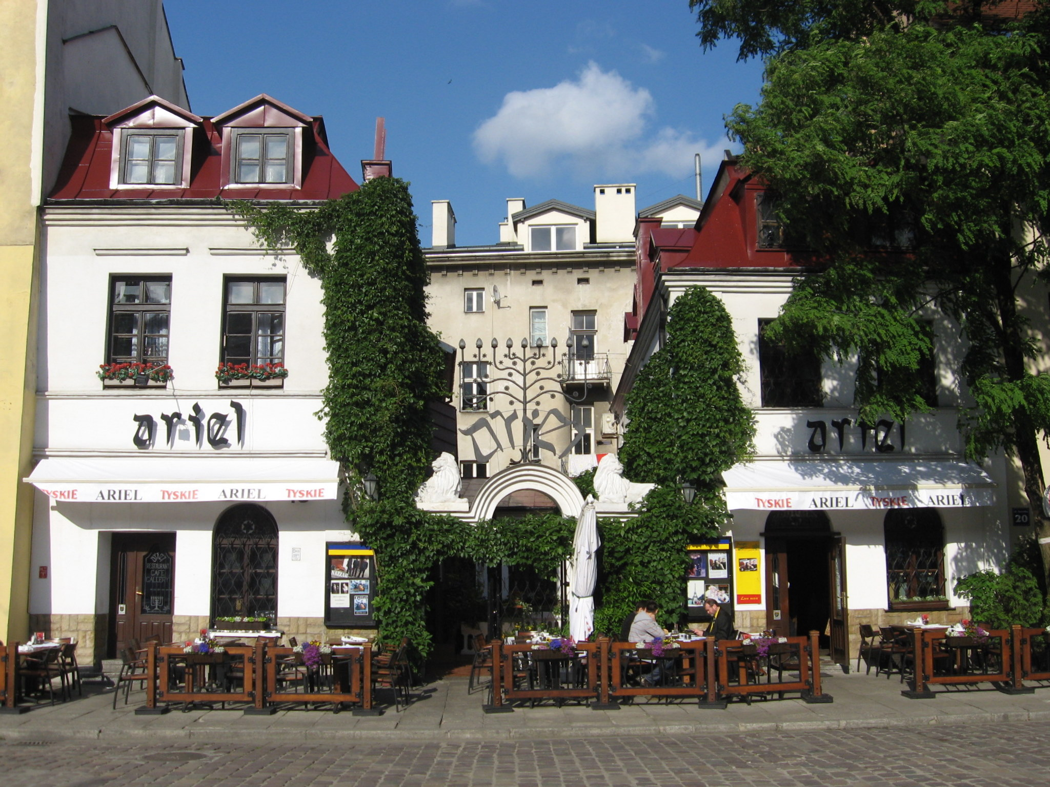 Ariel Jewish restaurant, Szeroka Street, Kazimierz, Krakow